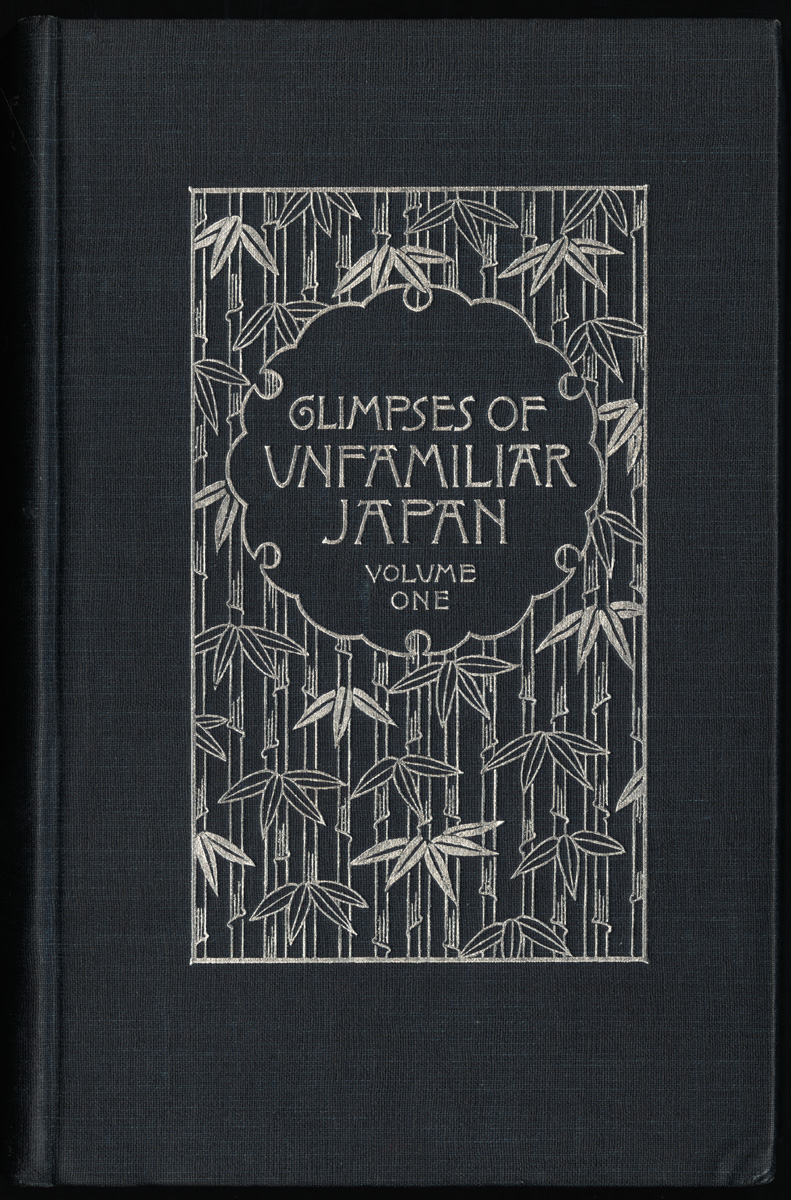 File name: 06_04_000242Title: HEARN(1895) Glimpses of unfamiliar JapanDate issued: 1895Genre: Book coversNotes: Hearn, Lafcadio, 1850-1904 (Author)Collection: Sarah Wyman Whitman BindingsLocation: Boston Public Library, Special CollectionsRights: No known copyright restrictions.